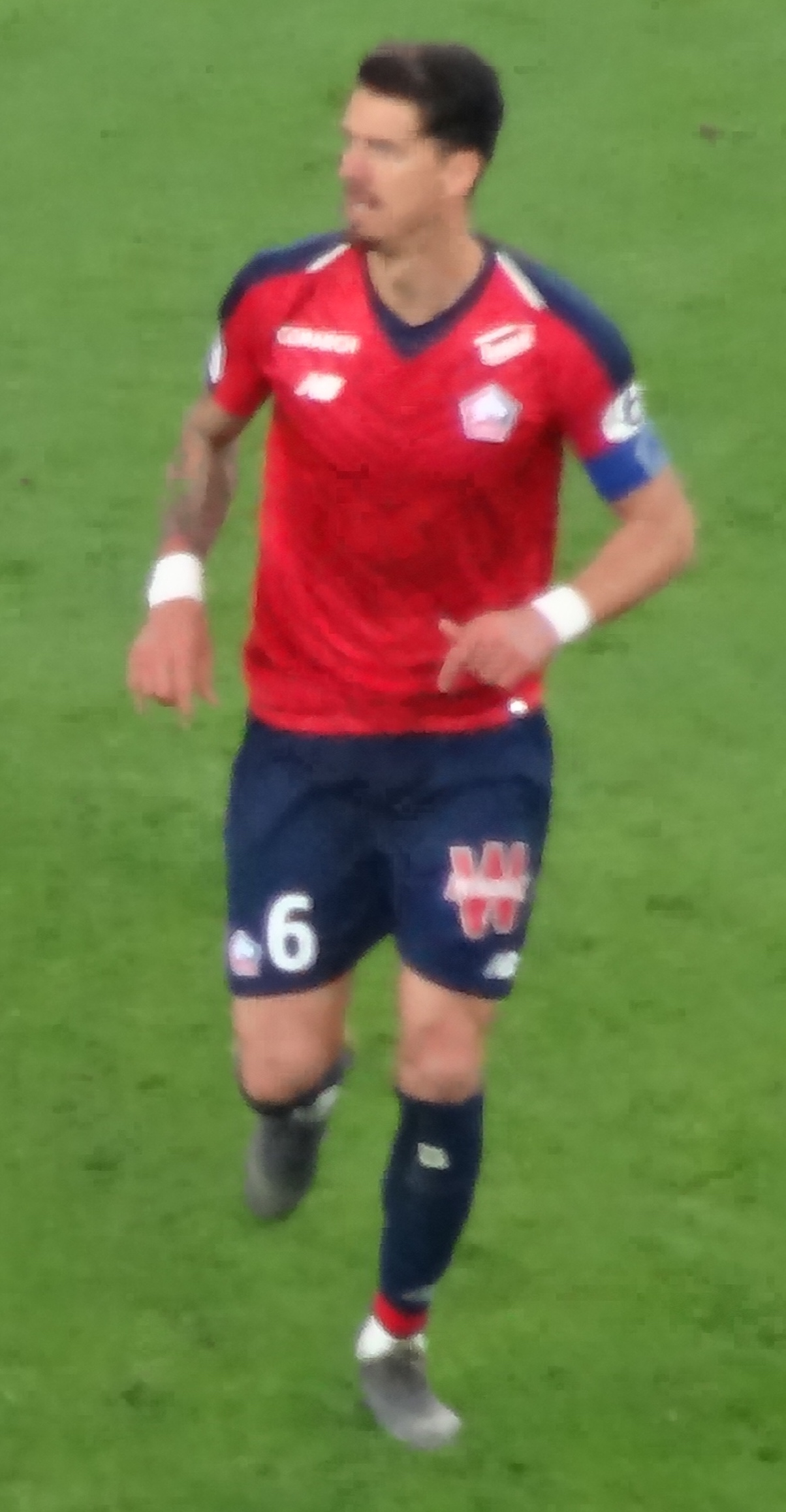 José Fonte (LOSC)